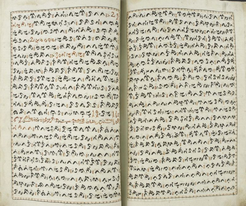 Manuscript. Excerpt from the diary of the princes of Gowa (then a powerful kingdom situated to the south of the island of Sulawesi, in the east of present-day Indonesia), written in the Makassarese language using Makasar script (also known as "Old Makassarese" or "Makassarese bird script").